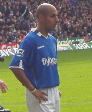 Mehdi Nafti playing for Birmingham City F.C. vs Portsmouth F.C. 2005